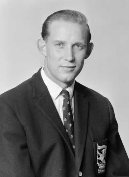 Bruce Murray (cricketer)